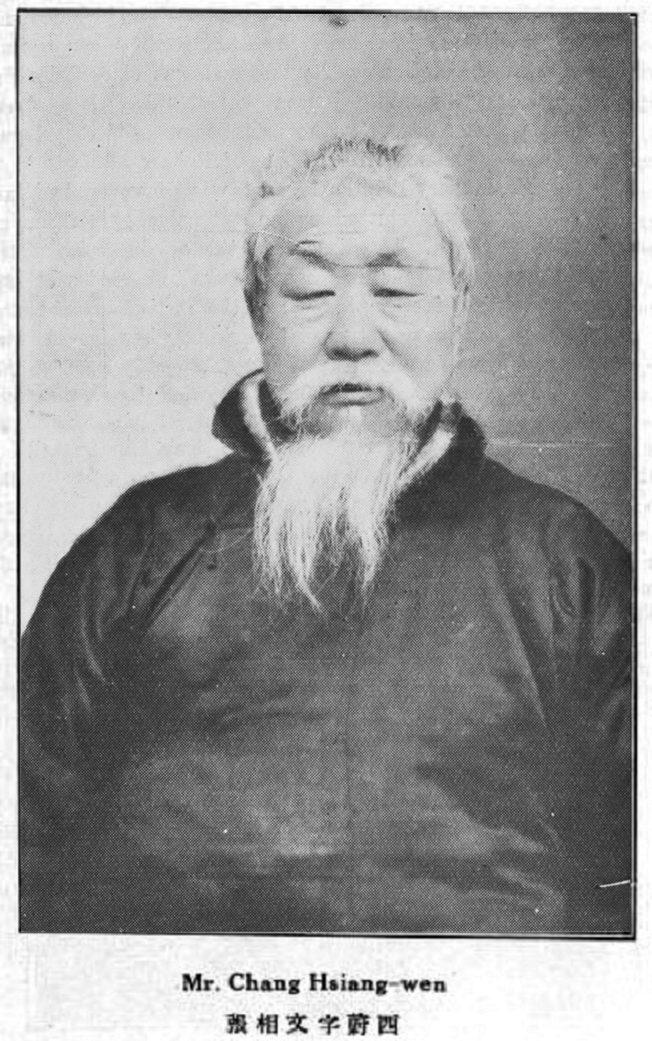 Zhang Xiangwen (1866-1933)